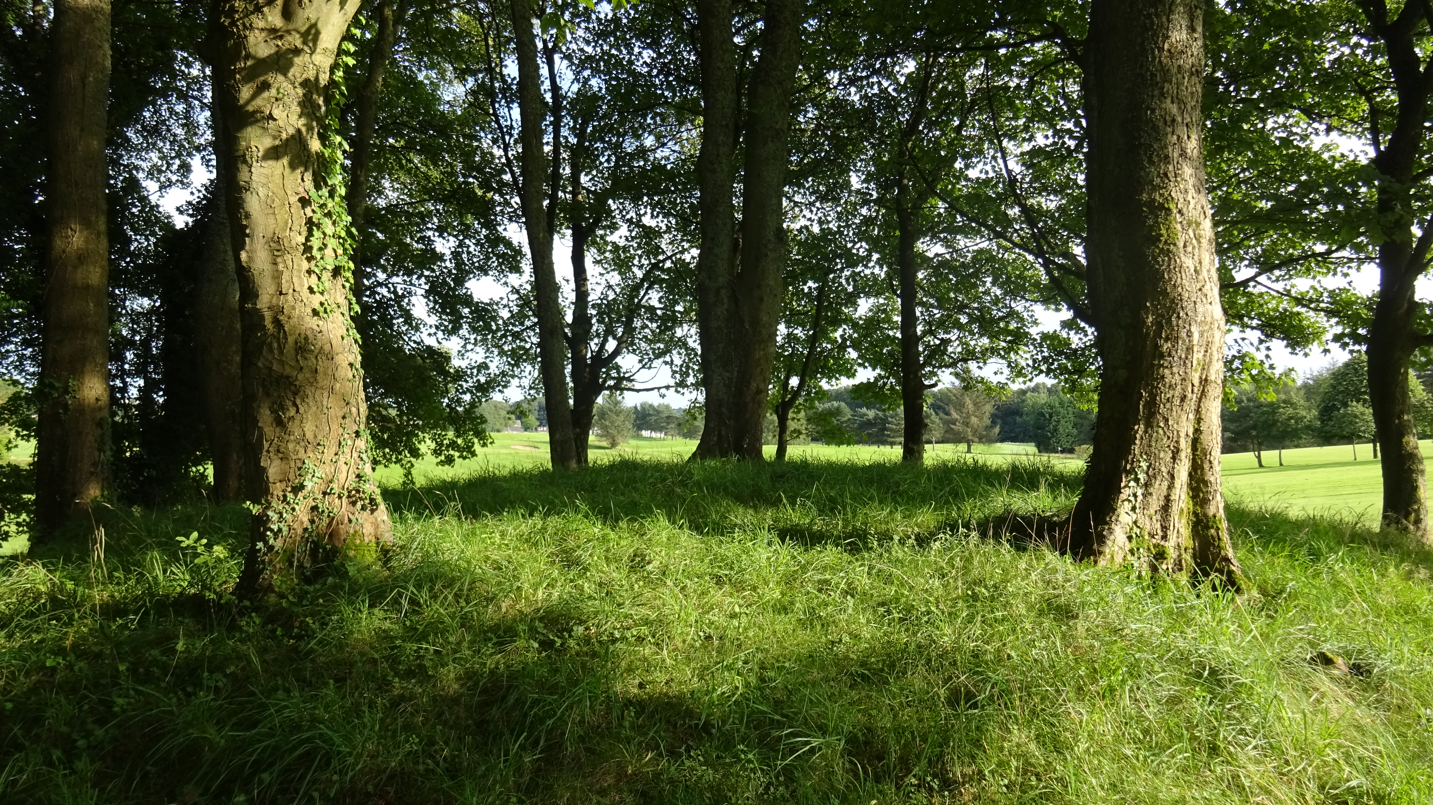 The Castle Hill, Caprington, East Ayrshire, Scotland. View of the summit. A possible motte or moot hill.